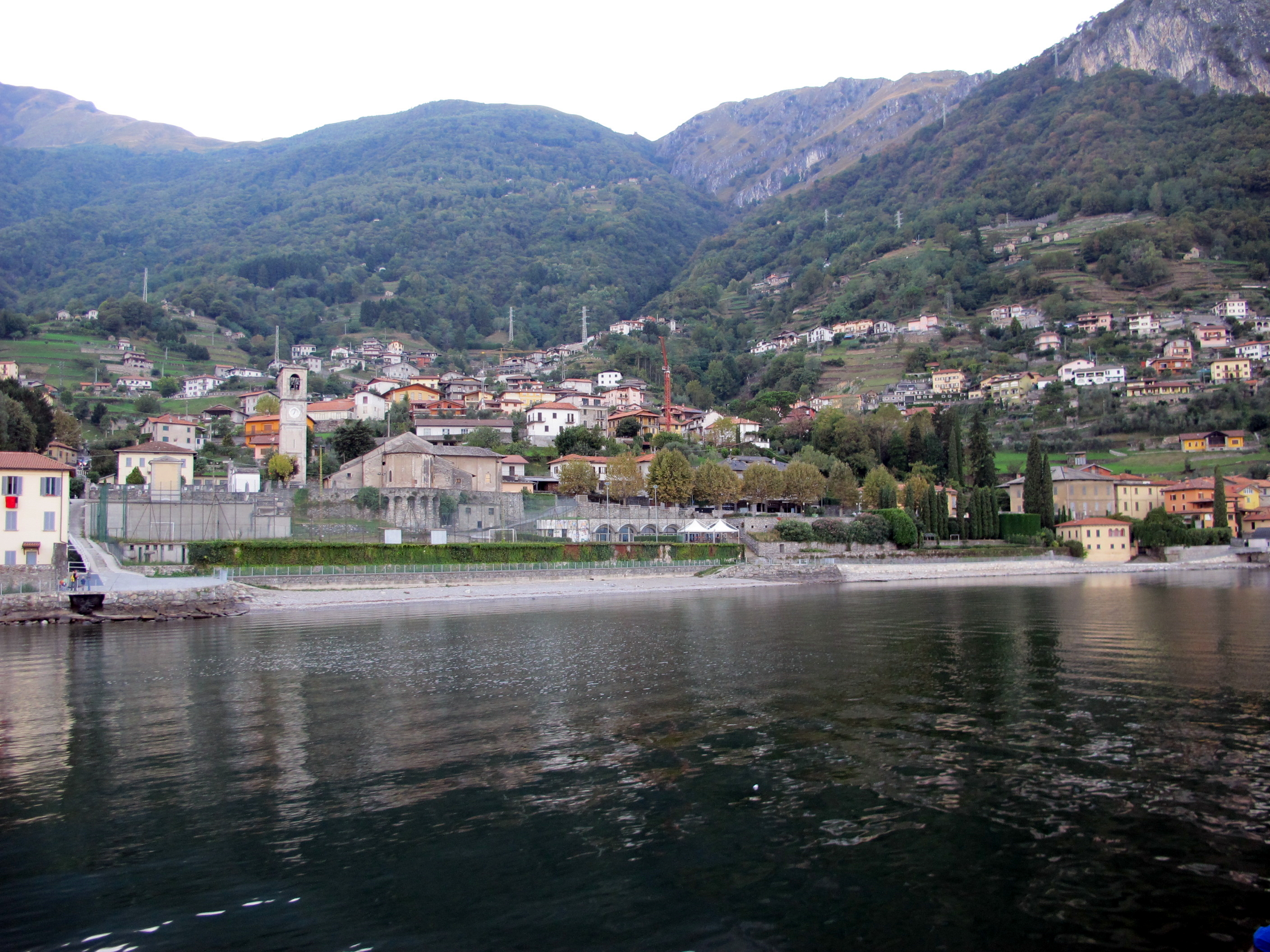 Italy, Lombardy, Lake Como, Musso